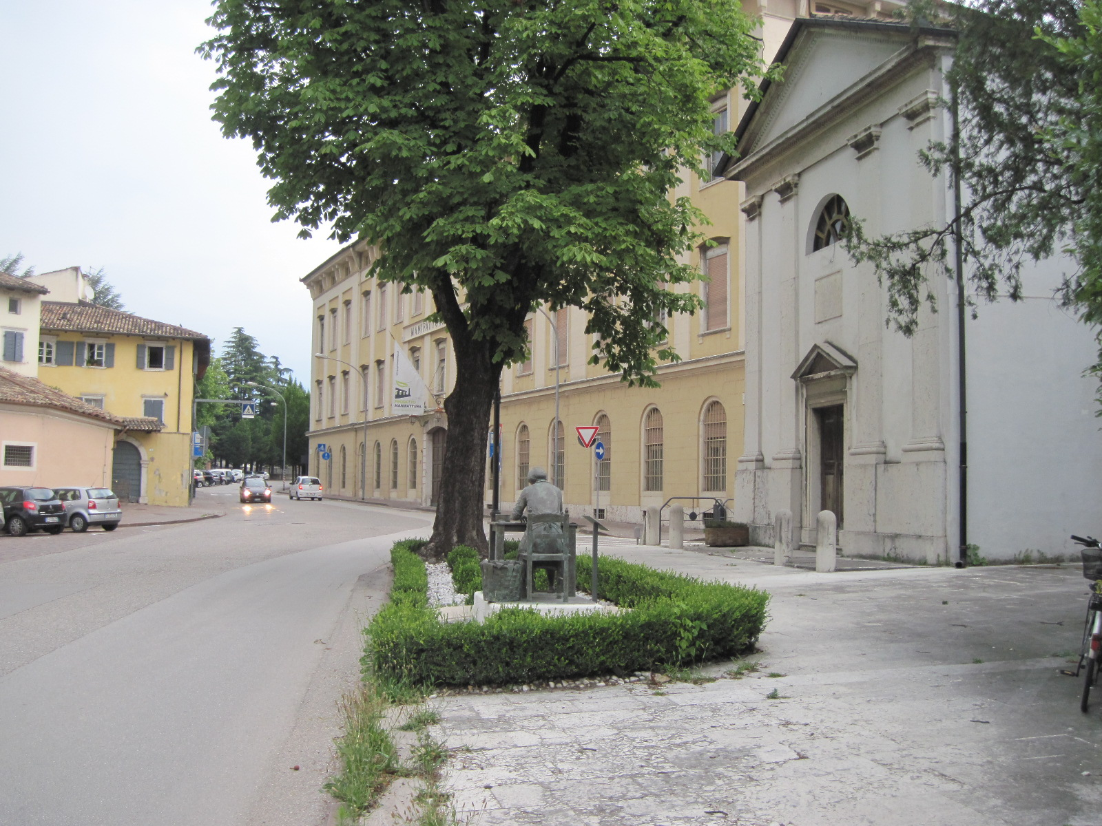 Zigherana monument, Rovereto